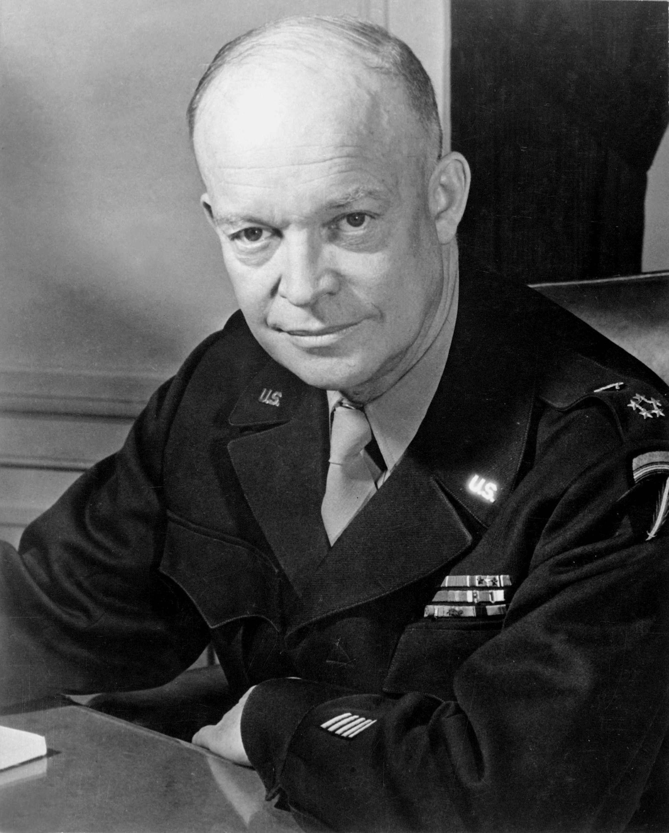 Dwight D. Eisenhower, Supreme Allied Commander, at his headquarters in the European theather of operations. He wears the five-star cluster of the newly-created rank of General of the Army. NARA FILE #: 080-G-331330 WAR & CONFLICT BOOK #: 745